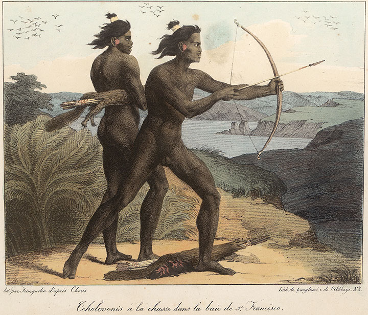 Native Americans of the San Francisco region, Northern California.